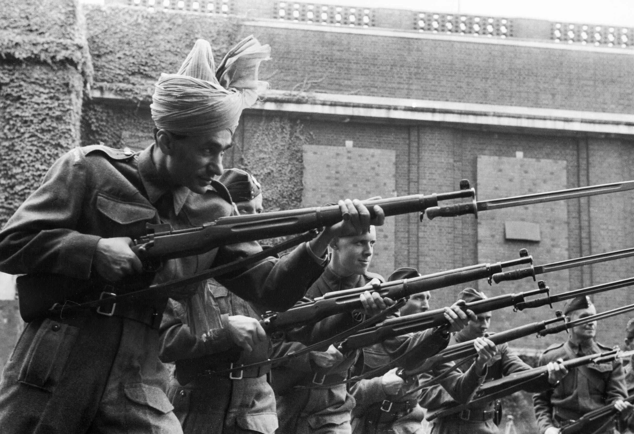 Poet and radio broadcaster Z A Bokhari attends bayonet drill with the rest of his colleagues in the BBC Home Guard, Bedford College. He has been granted special permission to wear a turban, rather than a forage cap.